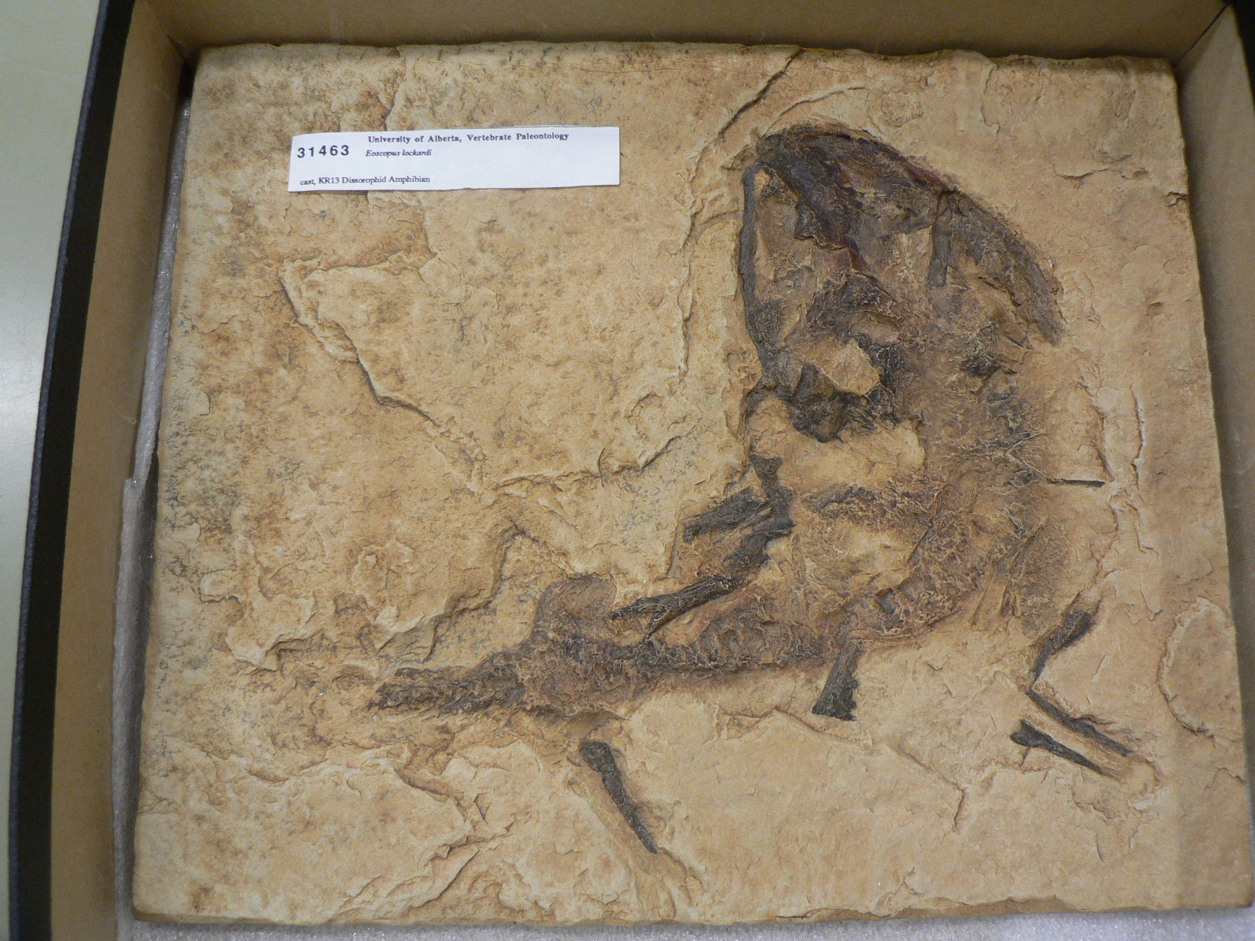 Eoscopus lockardi fossil. Taken at the University of Alberta Laboratory of Vertebrate Paleontology.